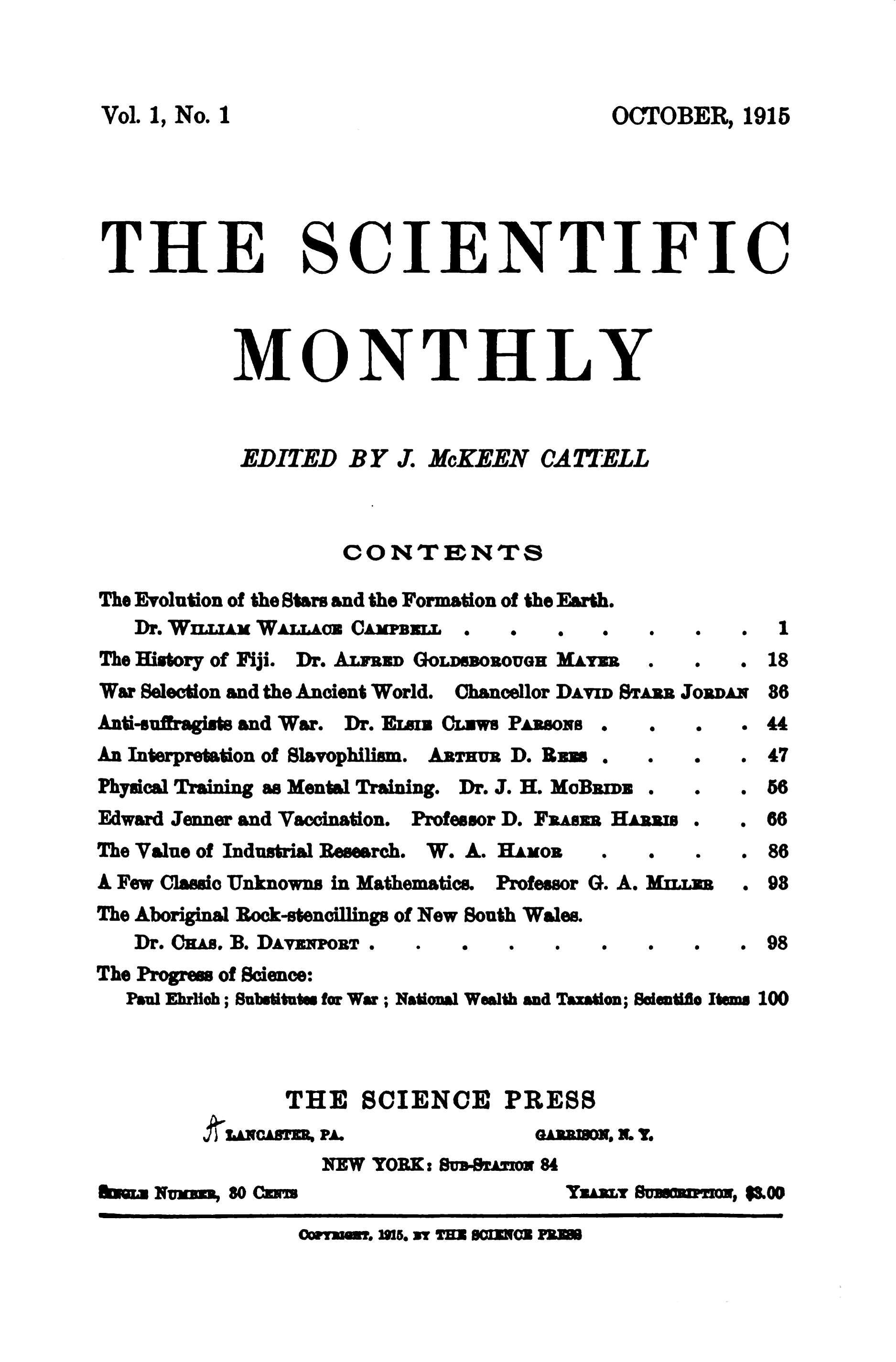 The first issue of Scientific Monthly, October 1915. It had previously been published as Popular Science Monthly since May 1872. Scientific Monthly was published until 1958. The title, Popular Science Monthly, was sold to Modern Publishing and their World's Advance assumed the title in October 1915 and is still in print as of 2008.